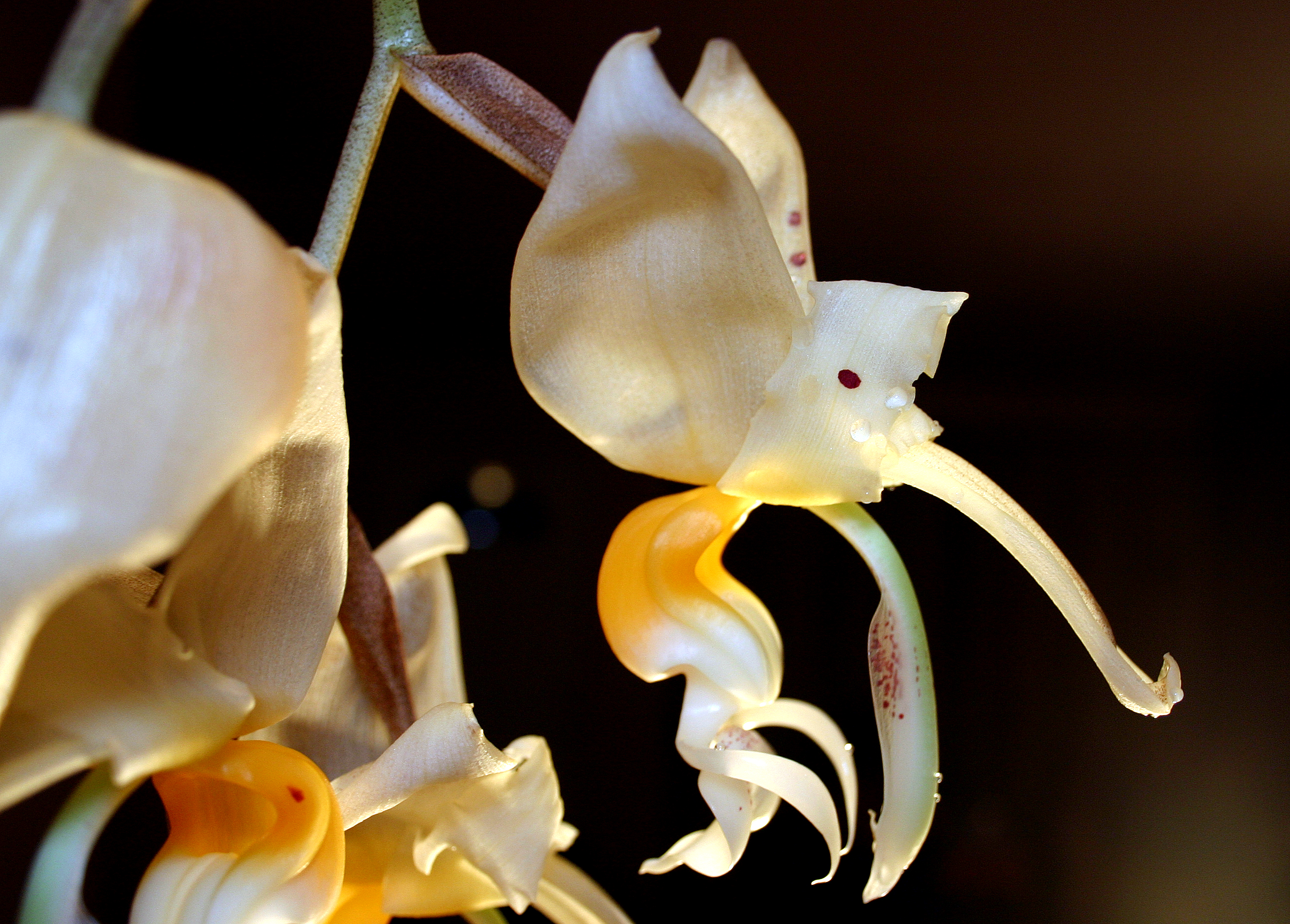 Profile of flower. Stanhopea embreei 'Shepard'